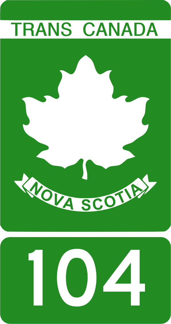 Nova Scotia Highway 104